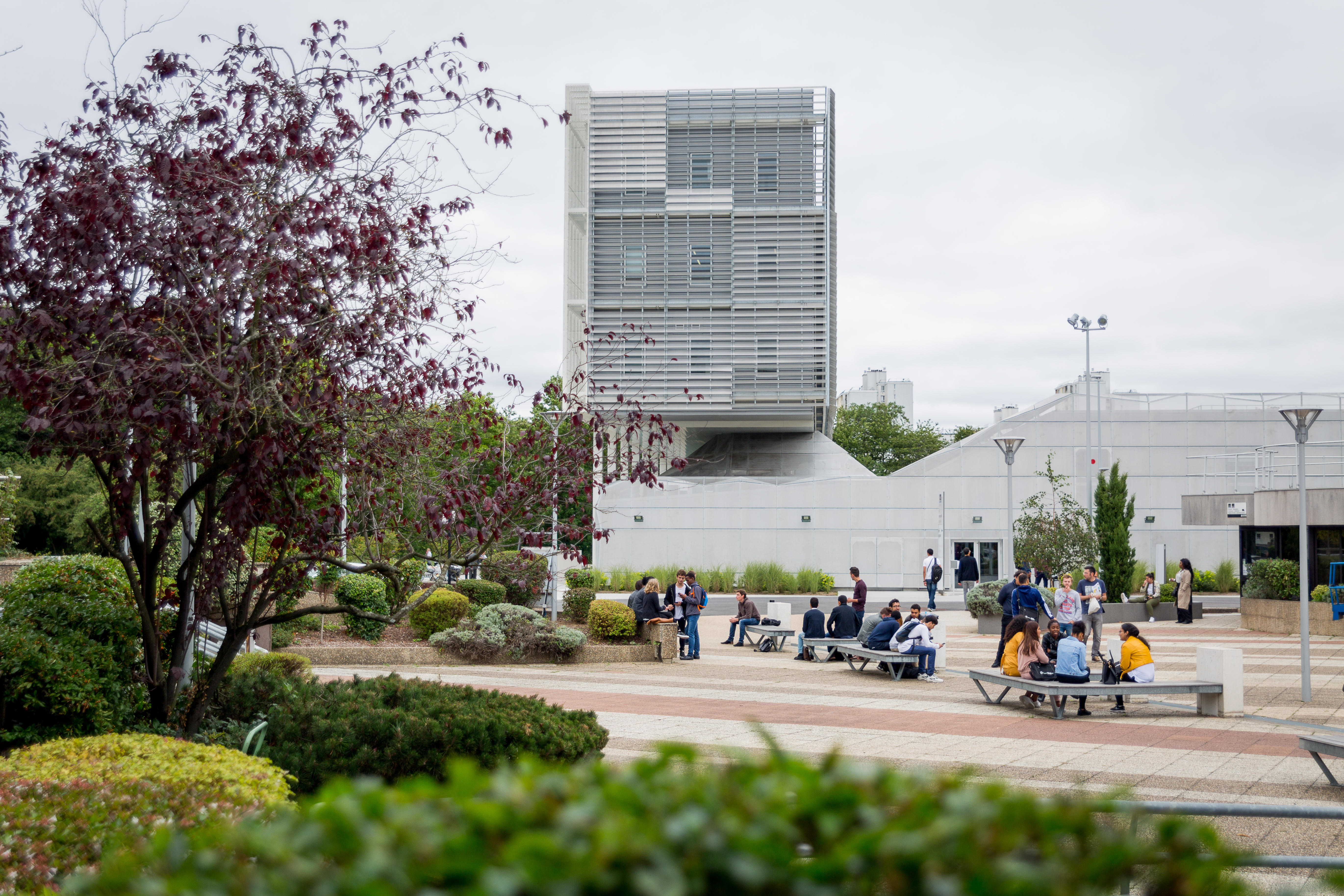 Etoile new building (built in 2016)